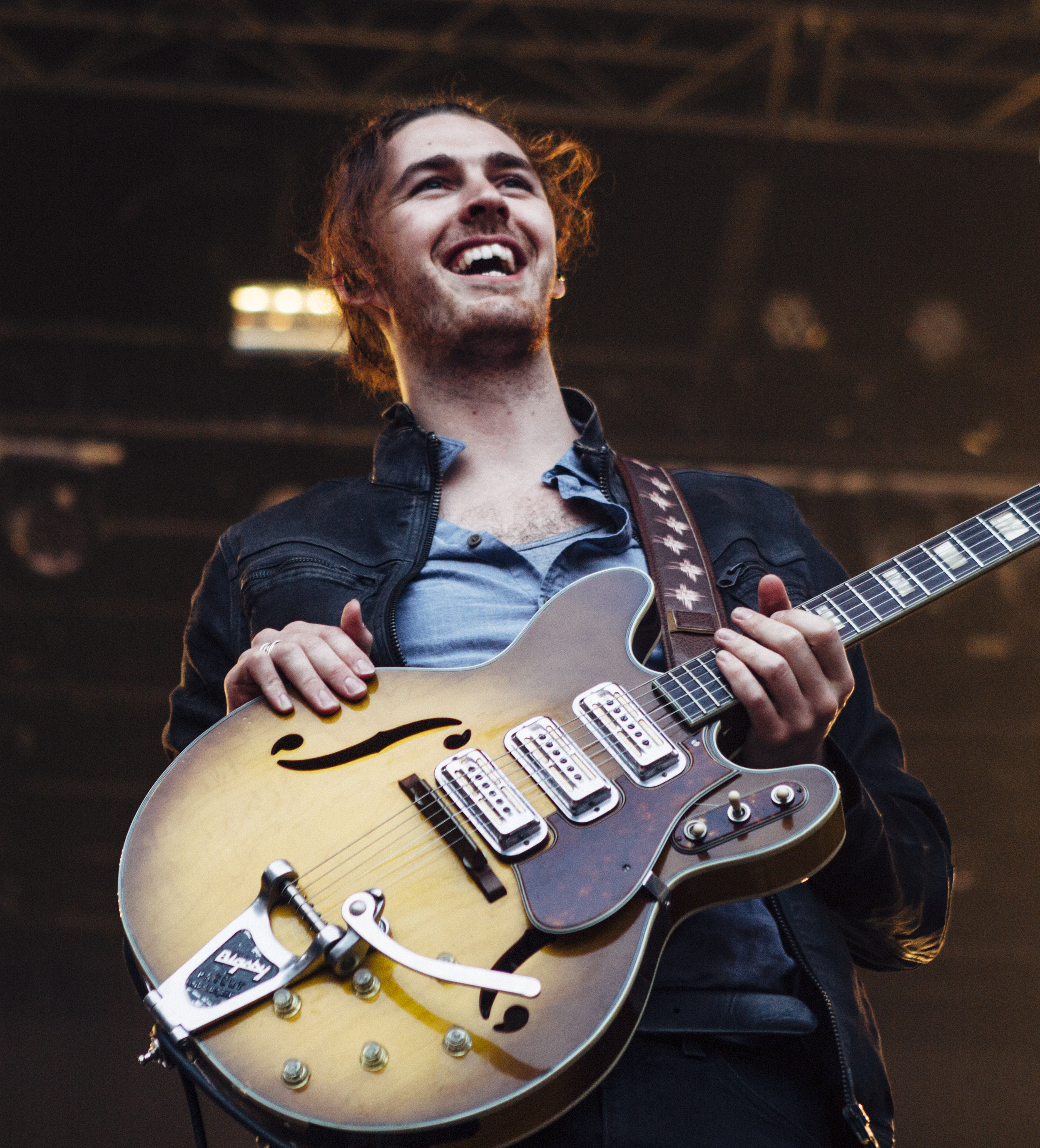 Hozier at Bumbershoot 2015 at Seattle, Washington.